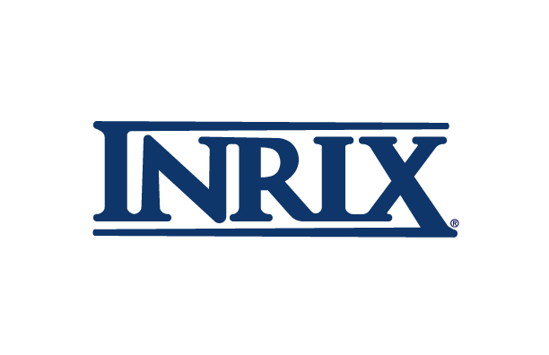 INRIX logo as of March 2015